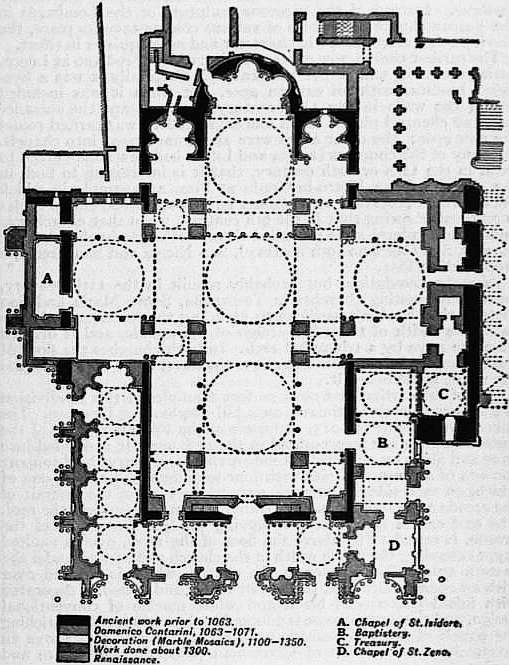 From R. P. Spiers’s Architecture, East and West.Plan of St Mark’s, Venice.Image from 1911 Encyclopædia Britannica, article Architecture.